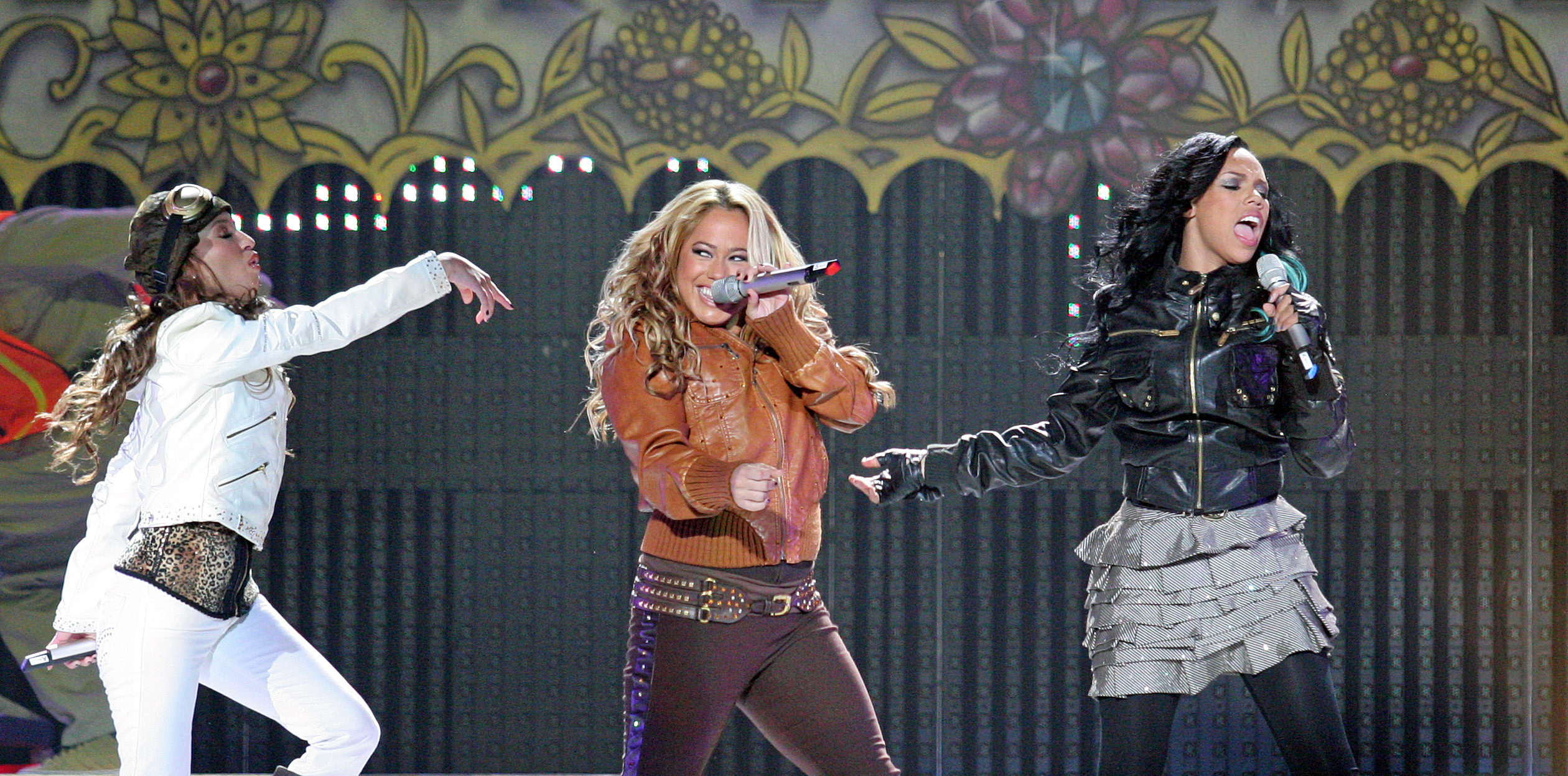 The Cheetah Girls, during their "One World" Tour.